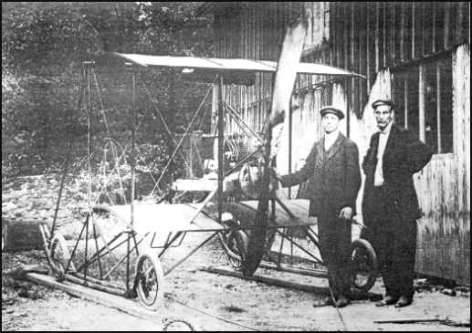 William T. Thomas and and unknown person standing next to an aircraft designed and built by William Thomas in 1909/1910